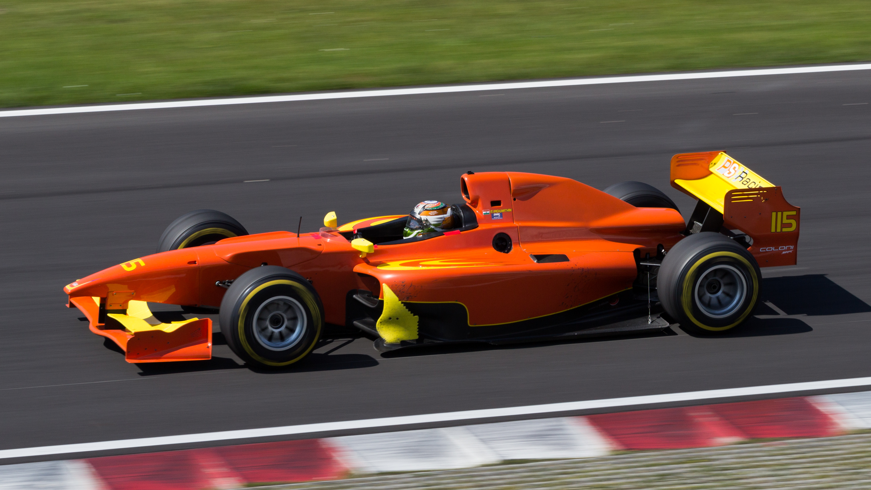 BOSS GP race 1 on Zandvoort 2017